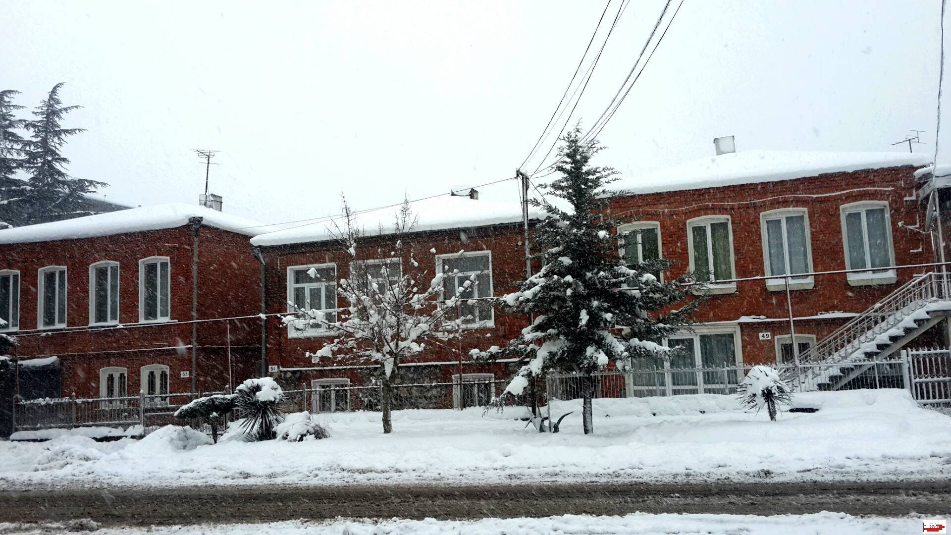 Kostava. Str, Senaki, სენაკი